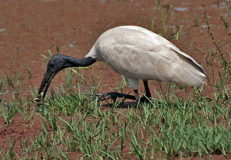 Black-headed Ibis (Threskiornis melanocephalus) at Keoladeo National Park, Bharatpur, Rajasthan, India.